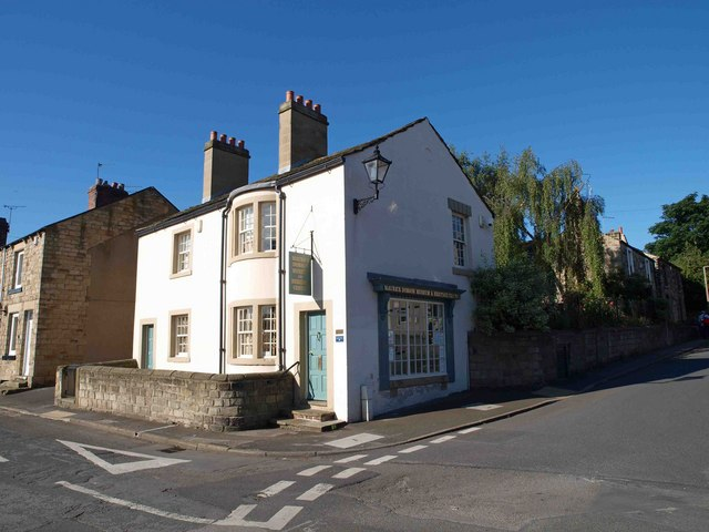 Darfield's museum - The Maurice Dobson Museum and Heritage Centre. The building was an off licence owned and run by Maurice.